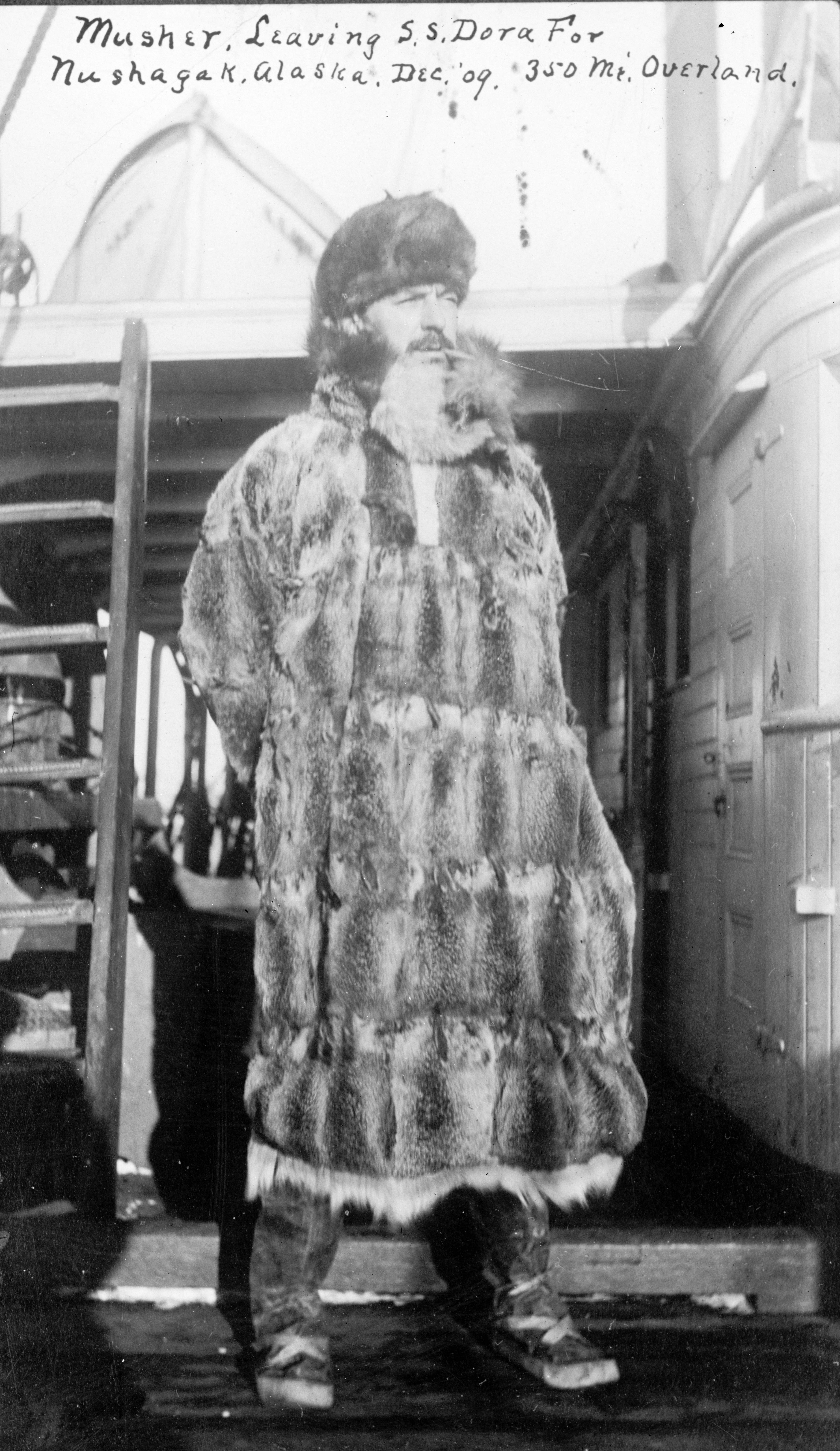 Alaska musher in 1909